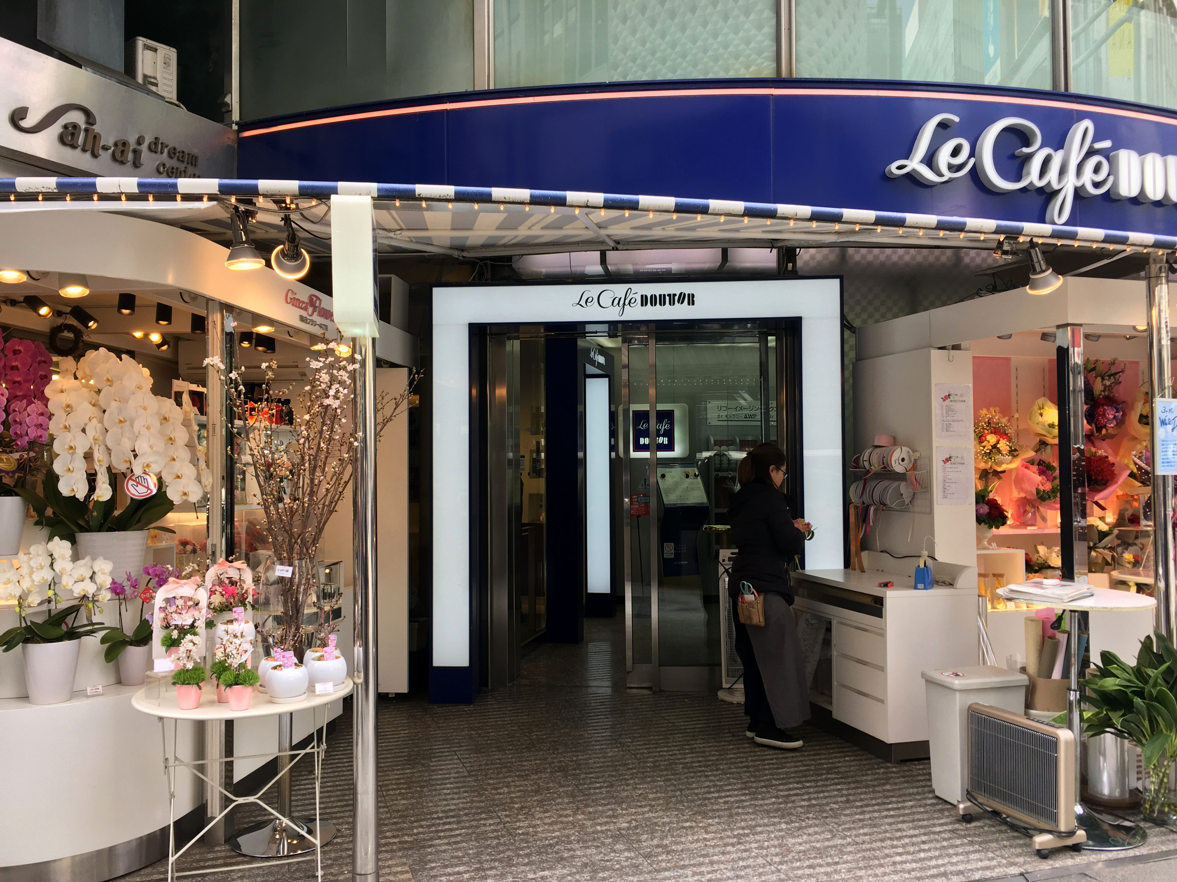 Le Café DOUTOR Ginza branch (Tokyo, Japan)